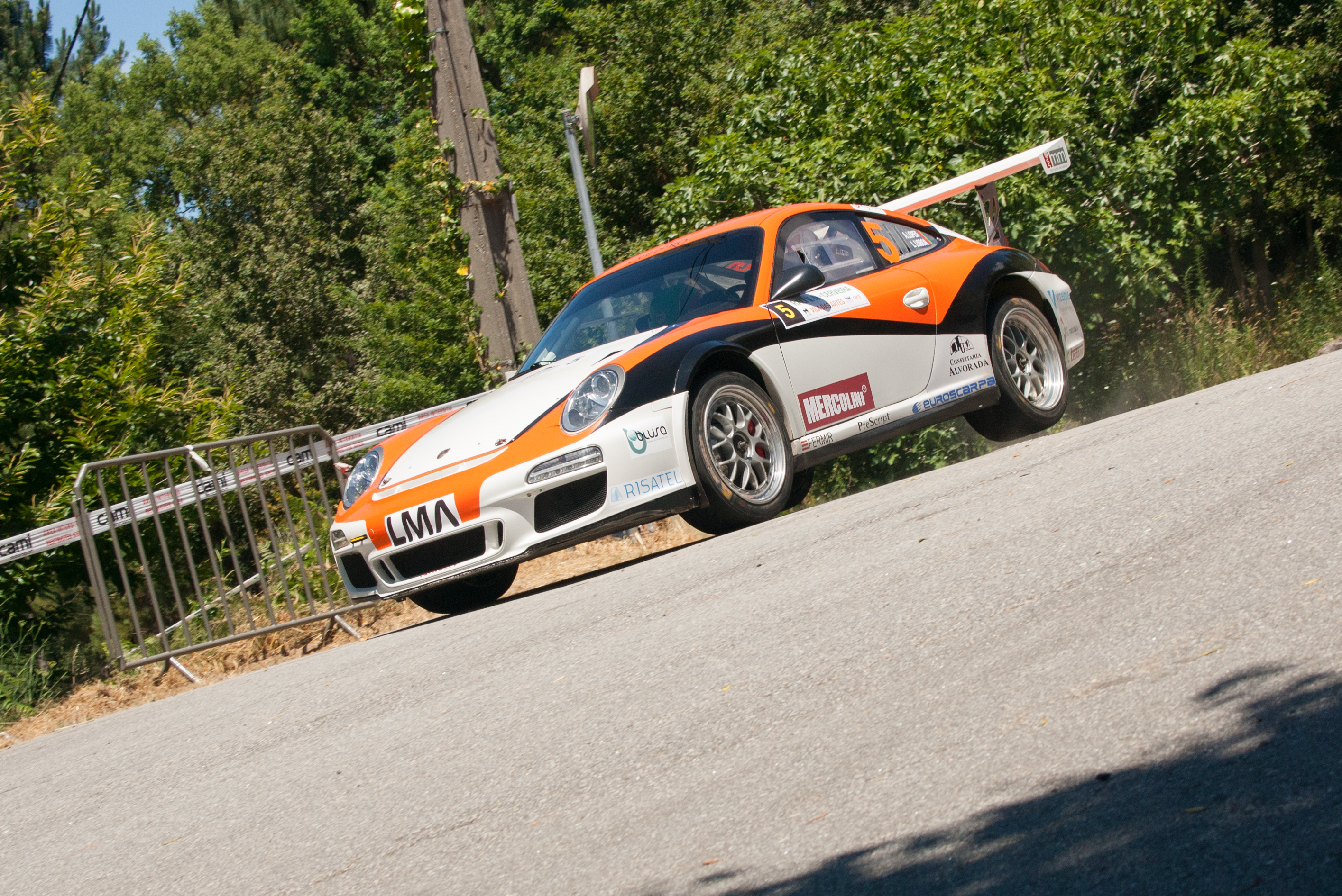 Rali Vila Nova de Cerveira